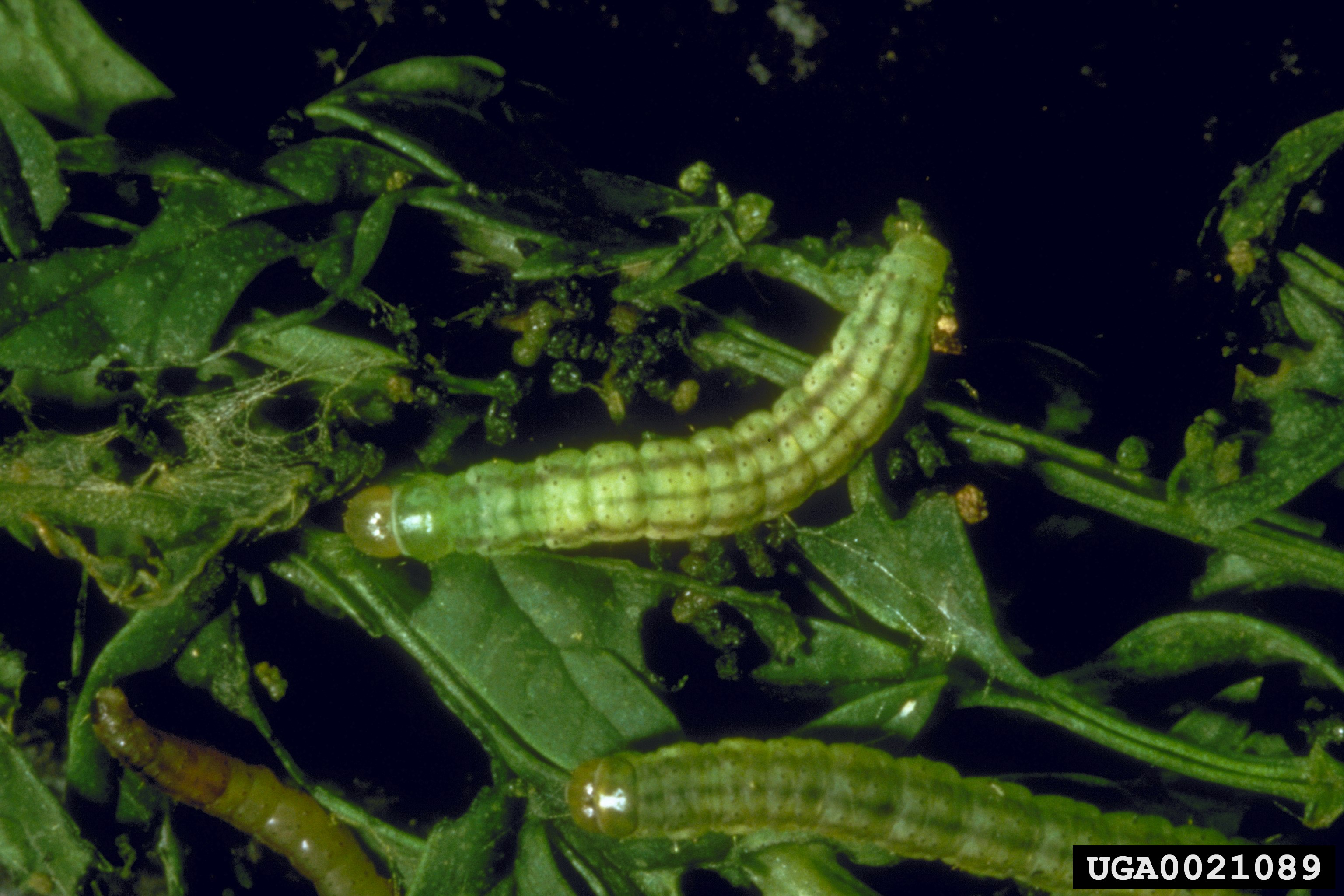 Agonopterix alstroemeriana caterpillar